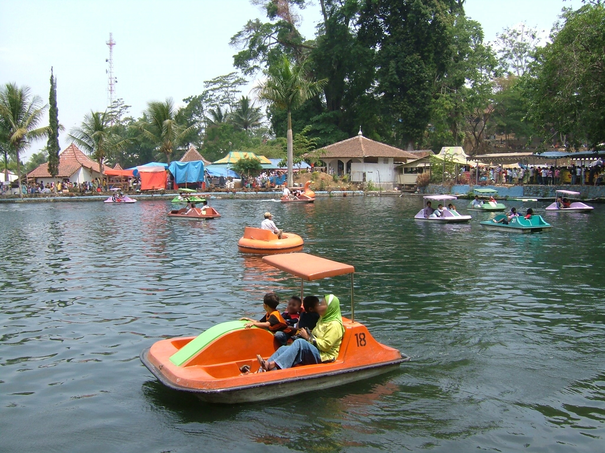 Linggarjati Nature and Recreation Park, Kuningan Regency, West Java, Indonesia